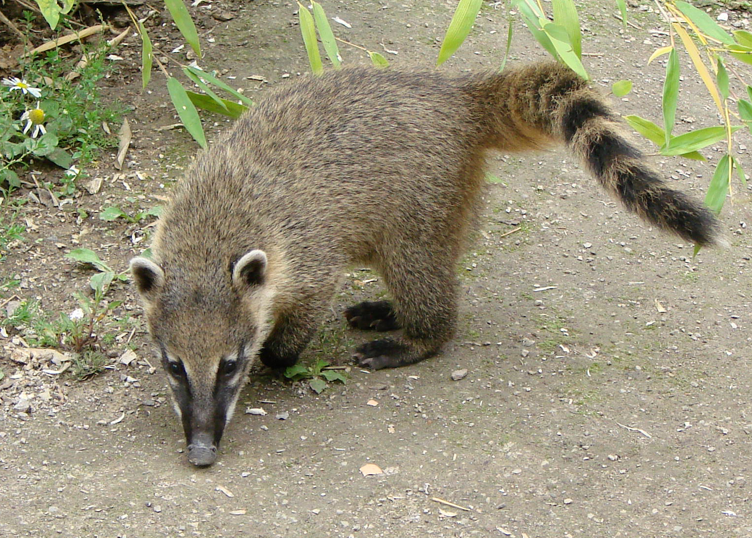 A young Ring Tailed Coati (Nasua nasua). Amiens Zoo.